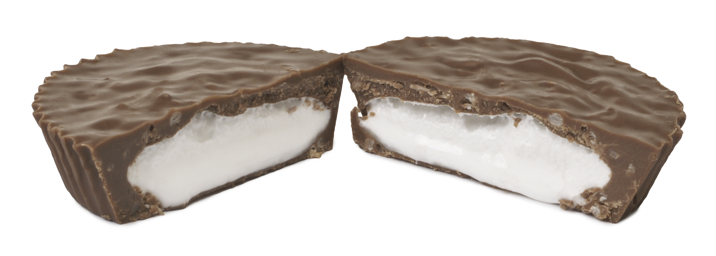 A Mallo Cup by Boyer Candy, shown split in half.